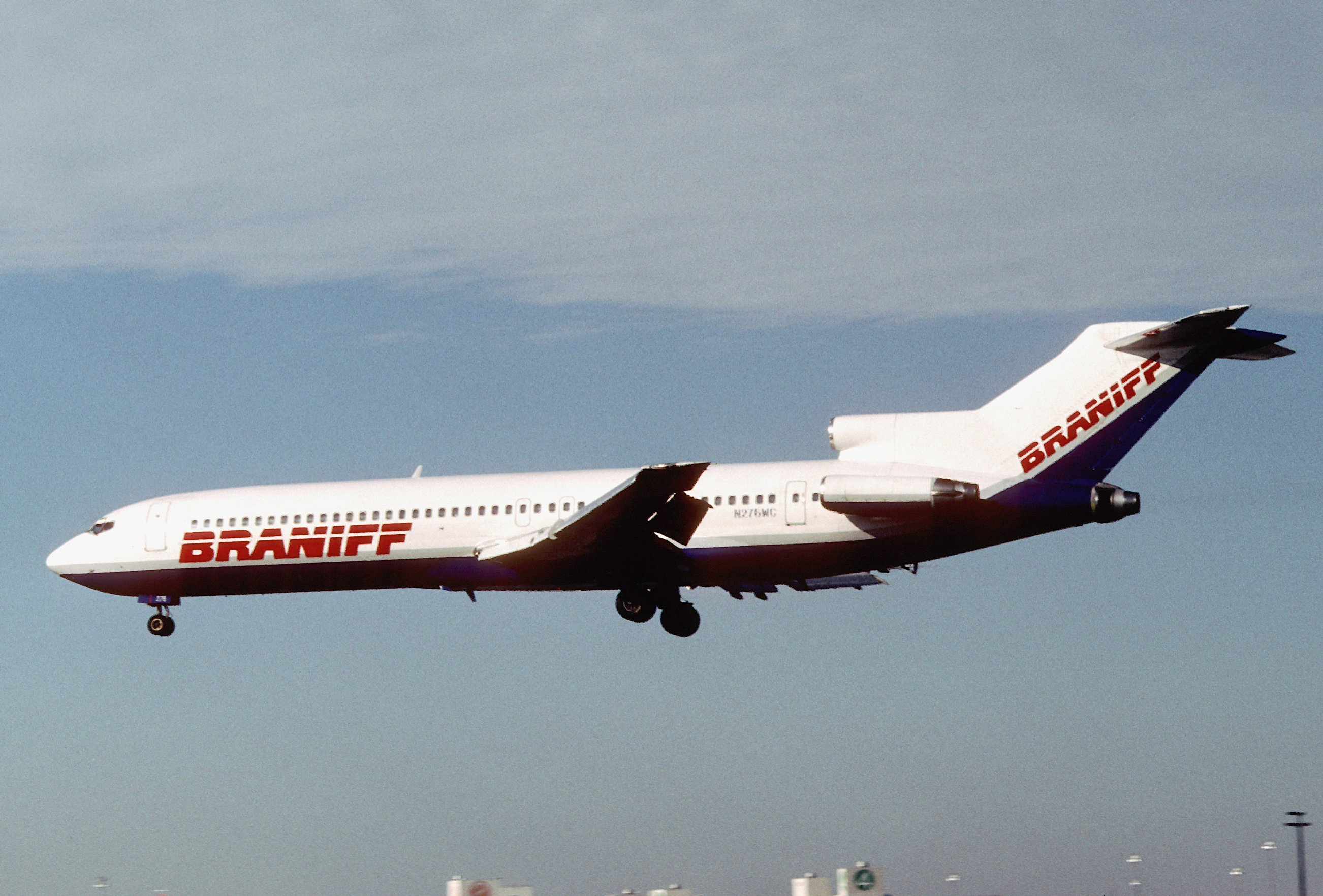 Braniff Airways Boeing 727-227; N276WC@MIA, April 1988